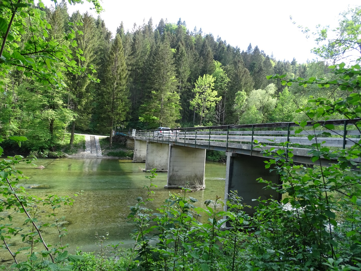 Bridge across the river Sava in Bodešče